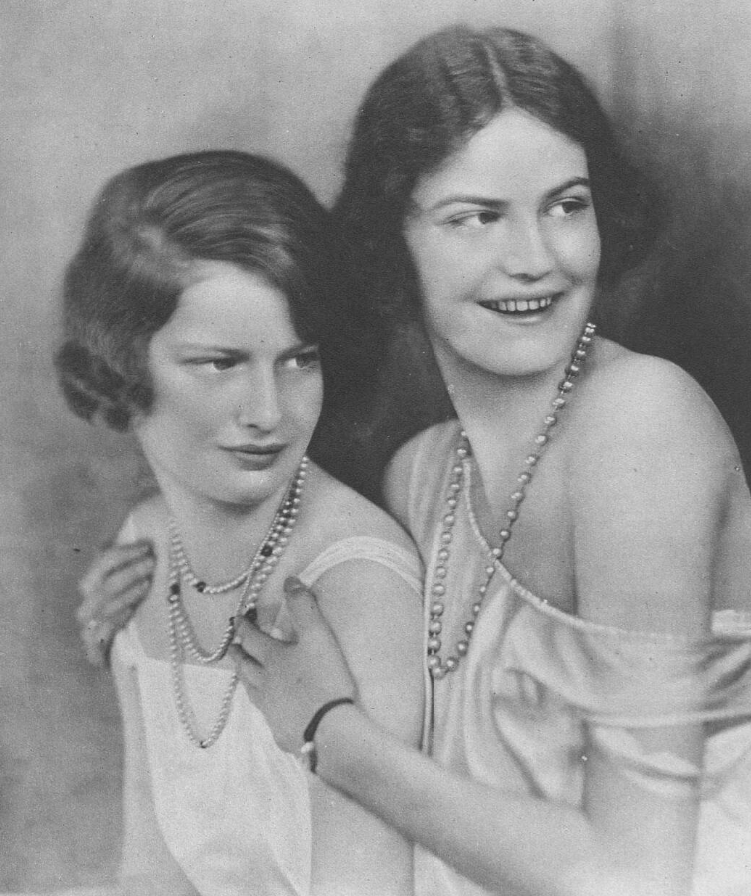 Lady Lettice Lygon and Lady Sibell Lygon, London, 1926.